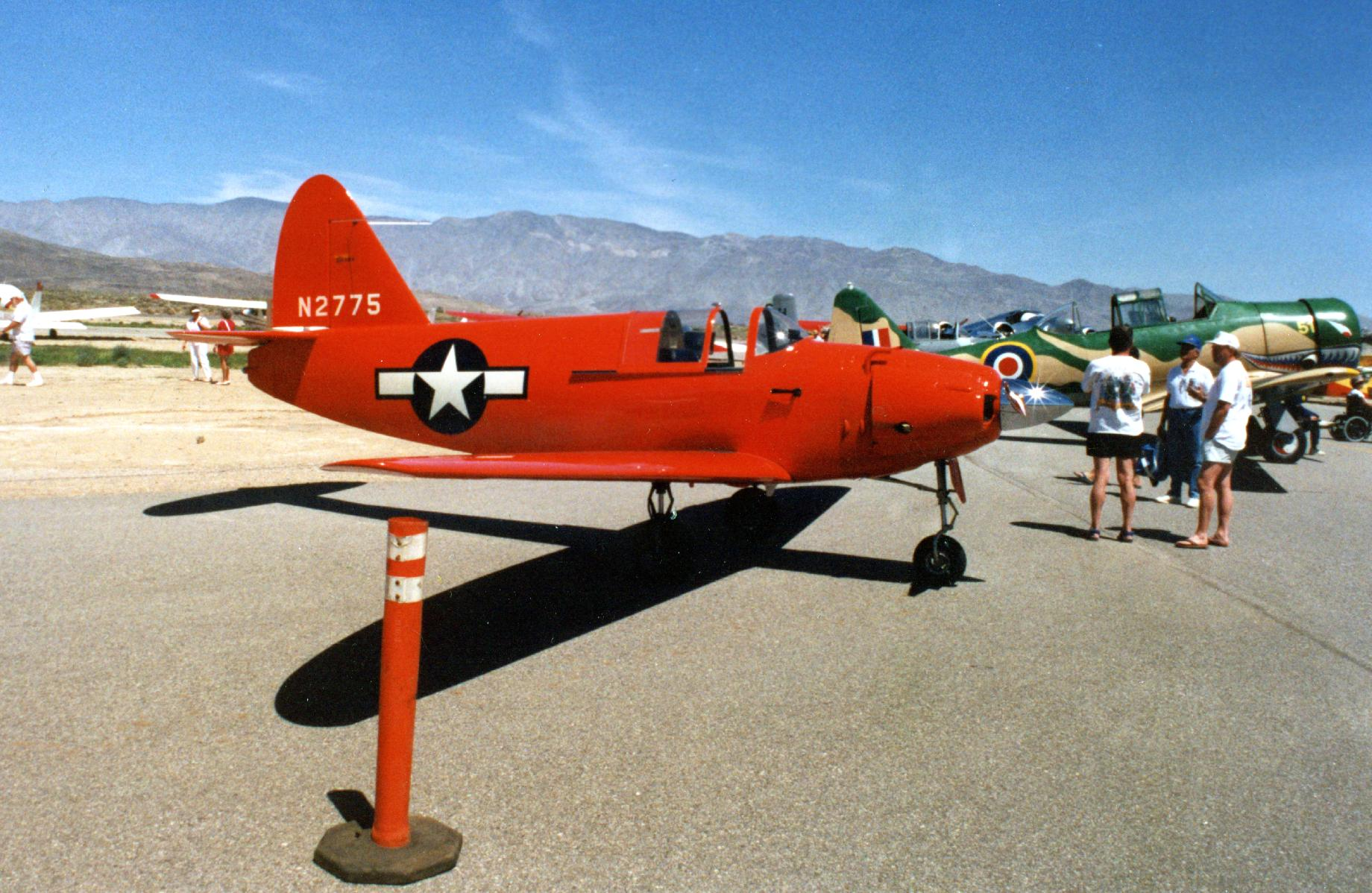 Culver PQ-14 Cadet "warbird" at Borrego Springs Airport, April 6, 1991.